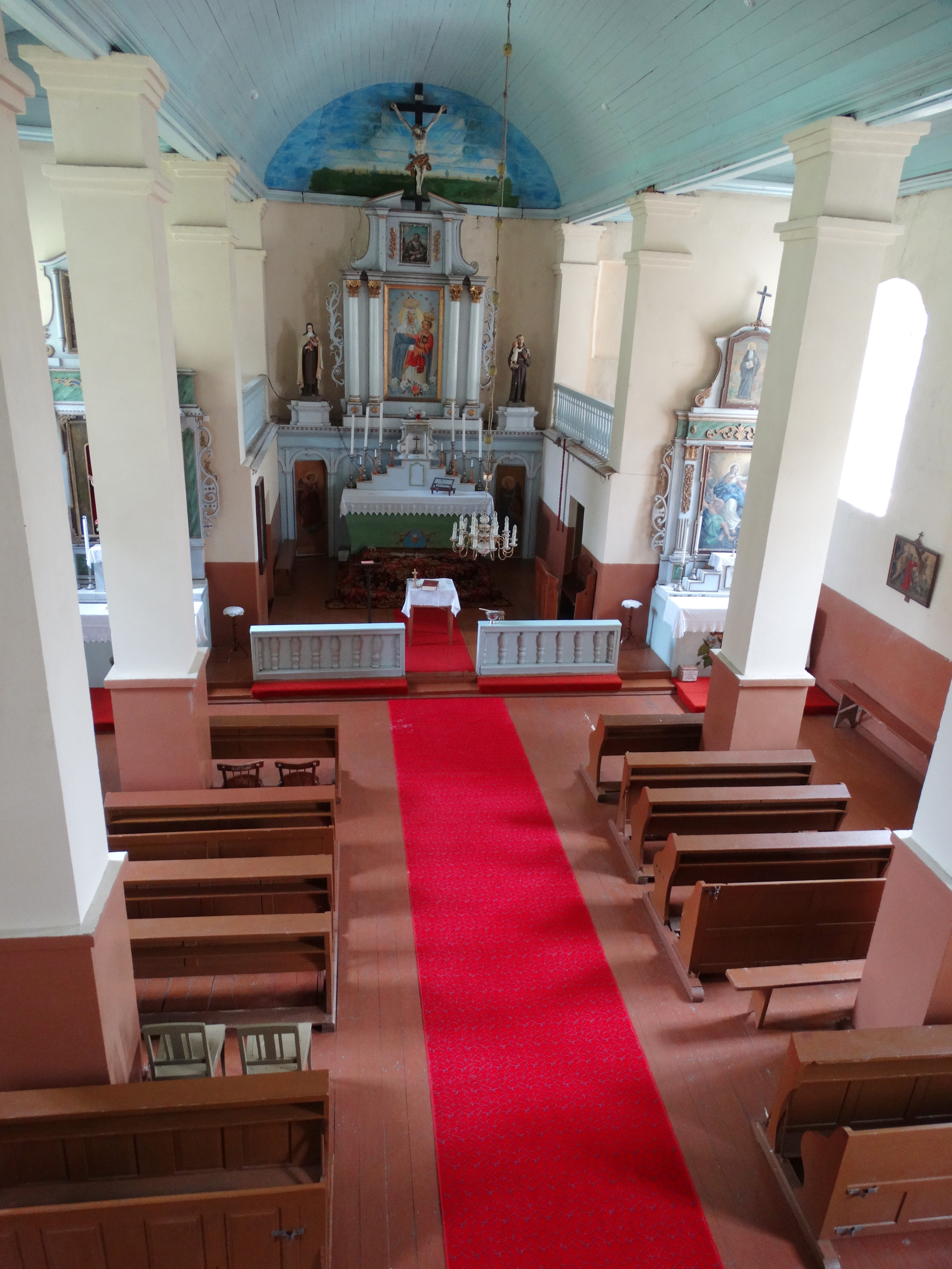 Church interior, Ugioniai, Raseiniai District, Lithuania